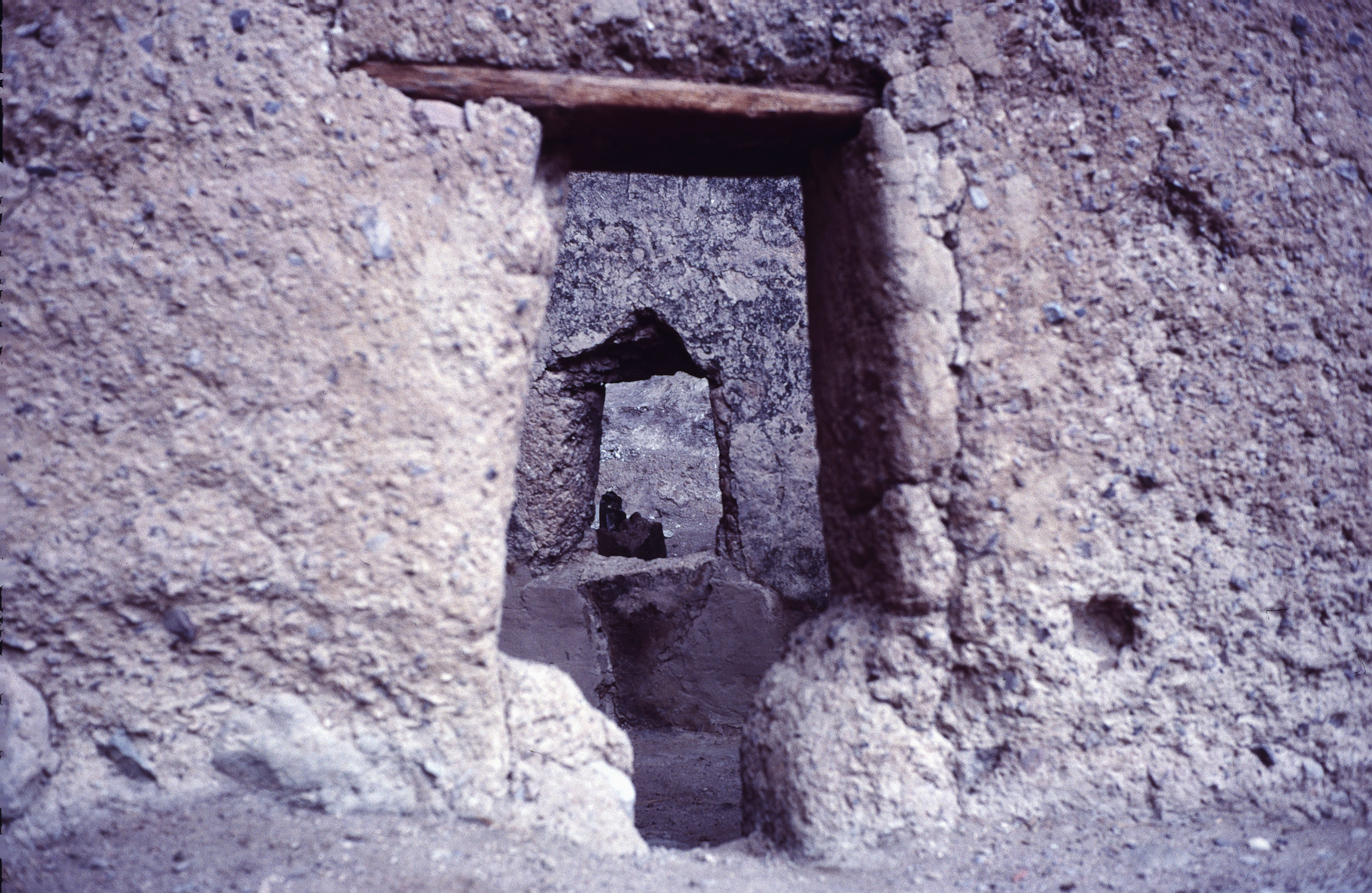 Cuarenta Casas, Chihuahua, Mexico: typical t-shaped doorway